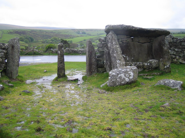 Dartmoor: Dunnabridge Pound Dunnabridge Pound is an ancient stock enclosure dating back to the Bronze Age. This is the entrance to the pound looking out towards the road with the so-called Judge's Chair, which may originally have been a dolmen, on the right.